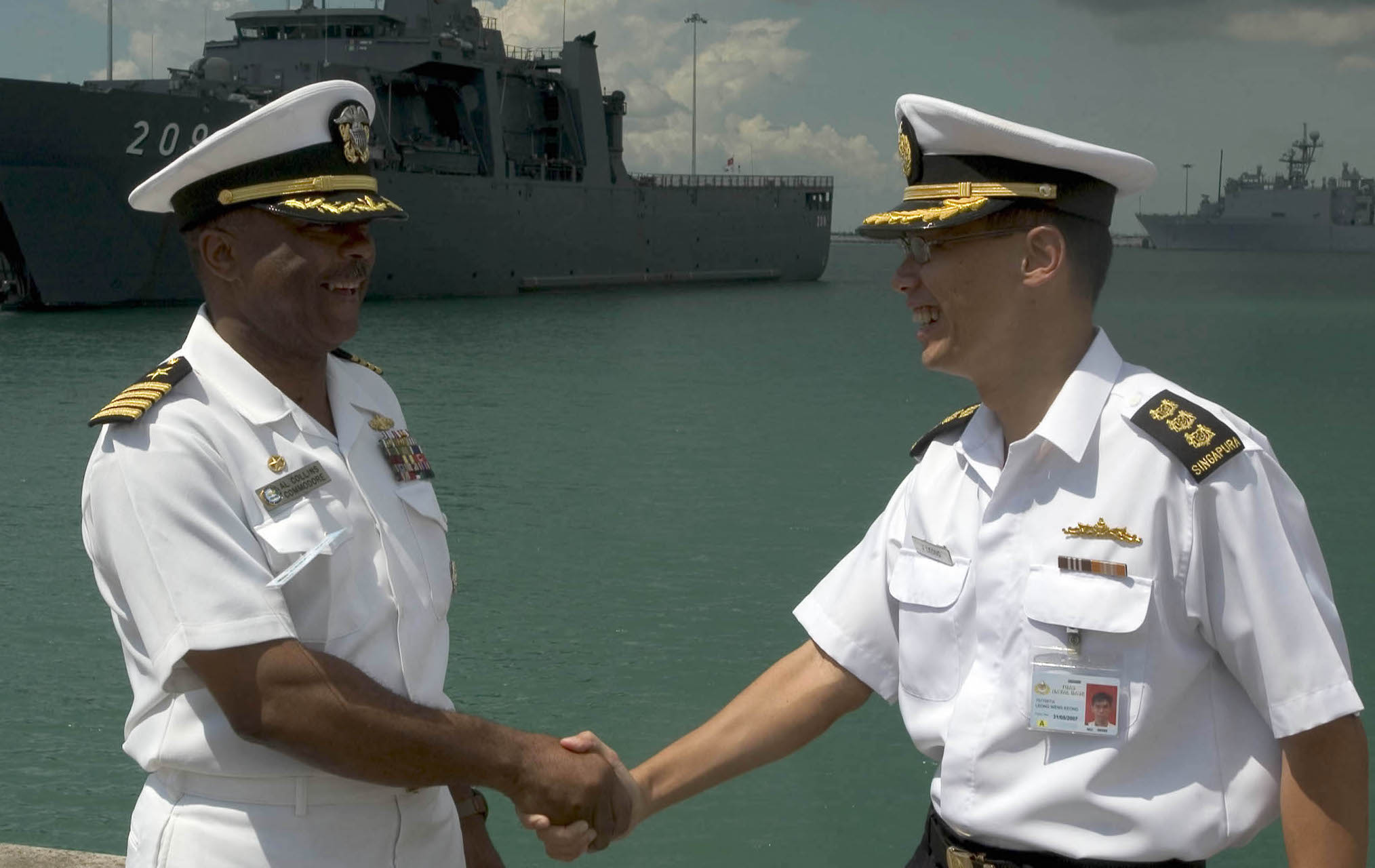 060530-N-9851B-007 Singapore (May 30, 2006) - Commander, Destroyer Squadron One, Capt. Al Collins, shakes hands with Col. Joseph Leong, commander of the Republic of Singapore Navy’s first flotilla, outside the Changi Navy Base auditorium following the opening ceremony for the Singapore phase of exercise Cooperation Afloat Readiness and Training (CARAT) 2006. CARAT is an annual series of bilateral maritime training exercises between the United States and six Southeast Asia nations designed to build relationships and enhance the operational readiness of the participating forces. U.S. Navy photo by Photographer’s 2nd Class John L. Beeman (RELEASED)